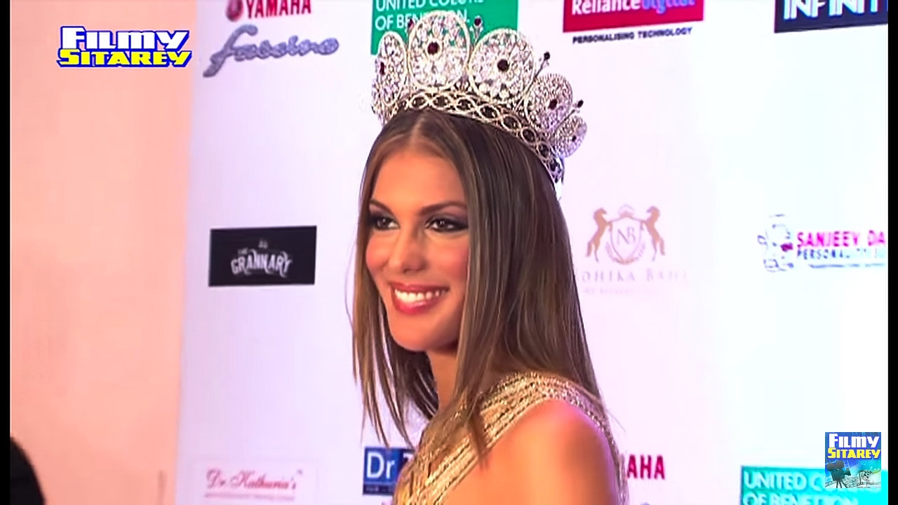 Miss Universe 2016, Iris Mittenaere on her visit to India in 2017.